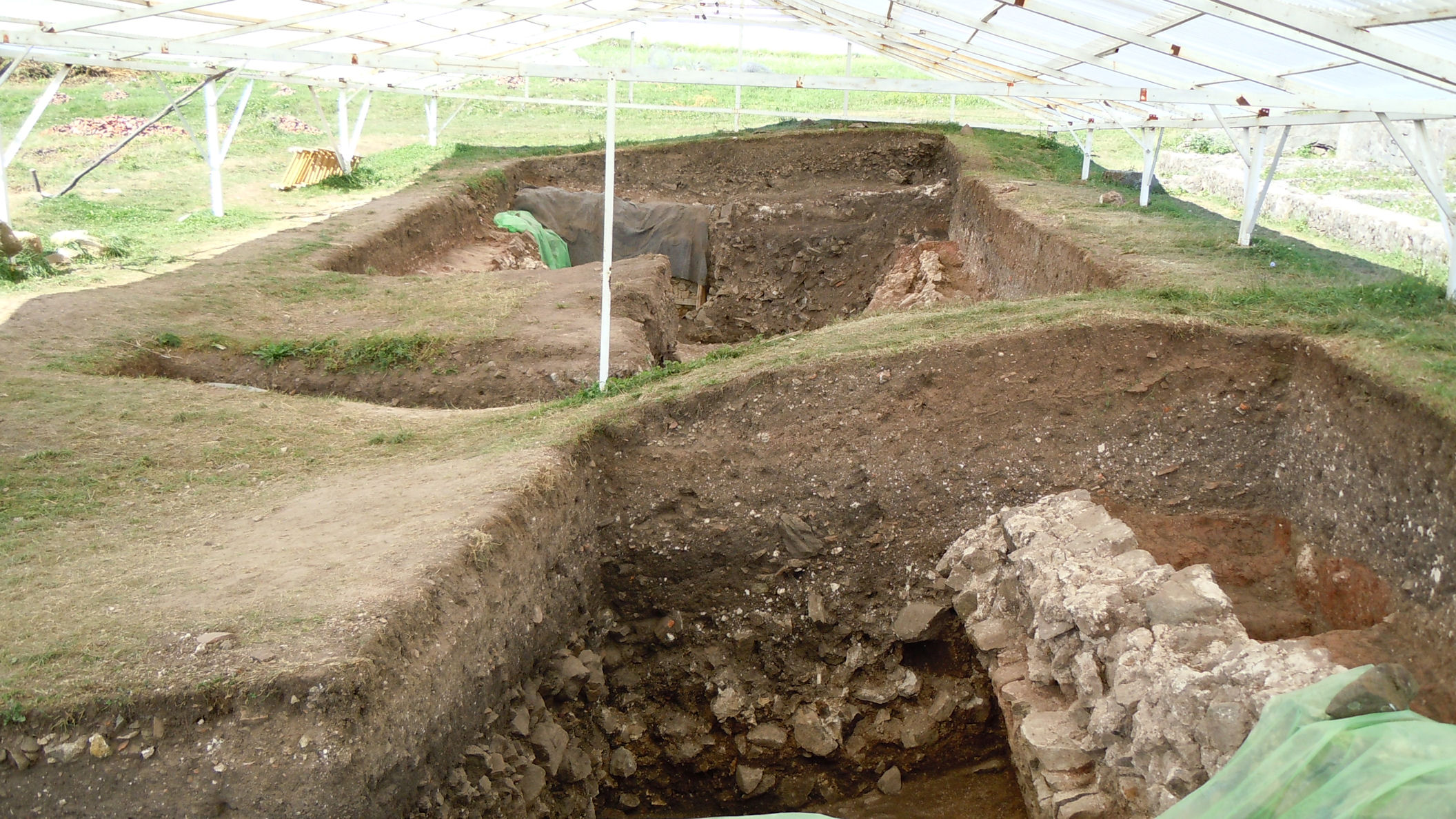 Excavation at Porolissum 01